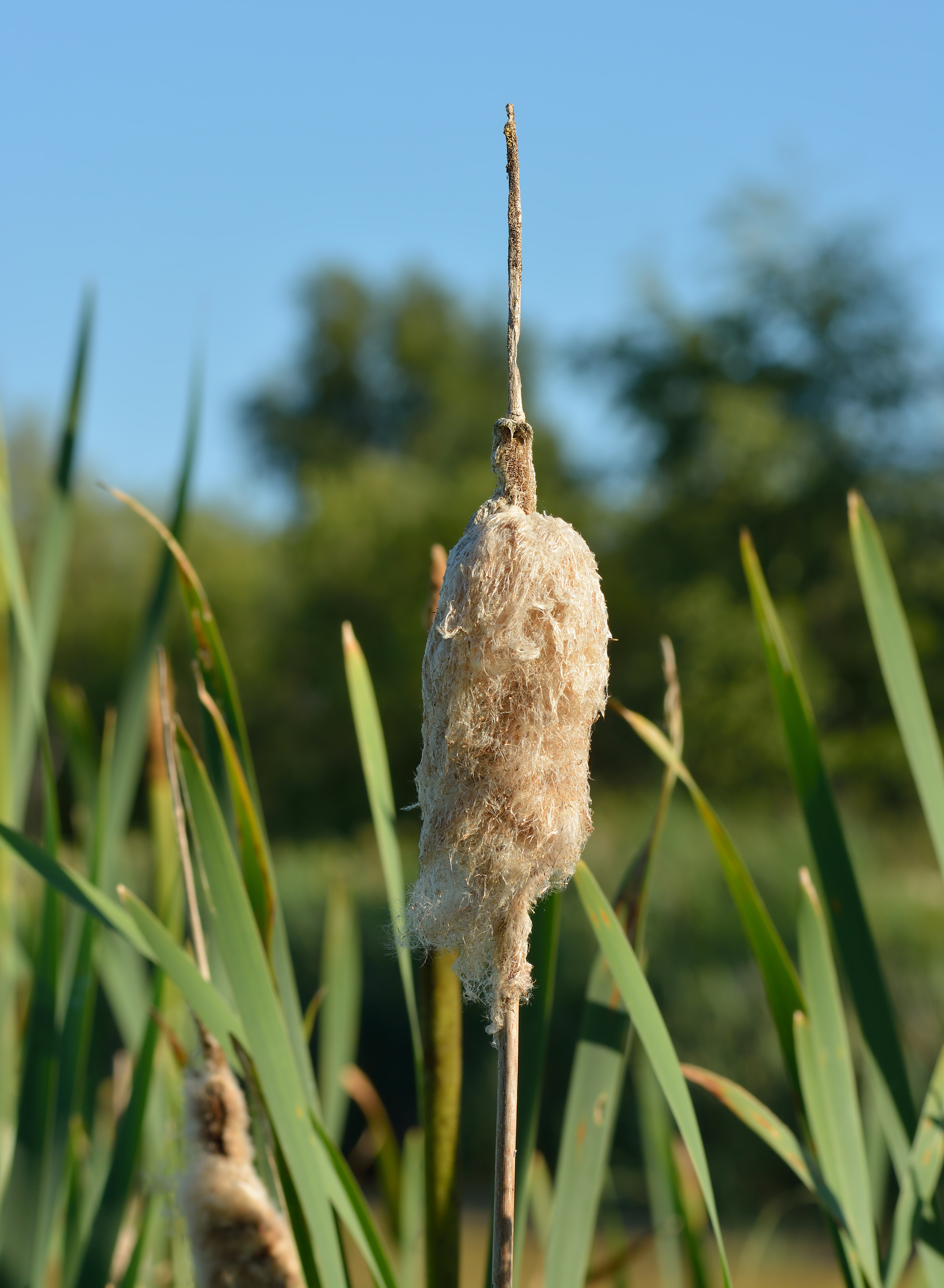 Bulrush (Typha latifolia). Keila, Northwestern Estonia.